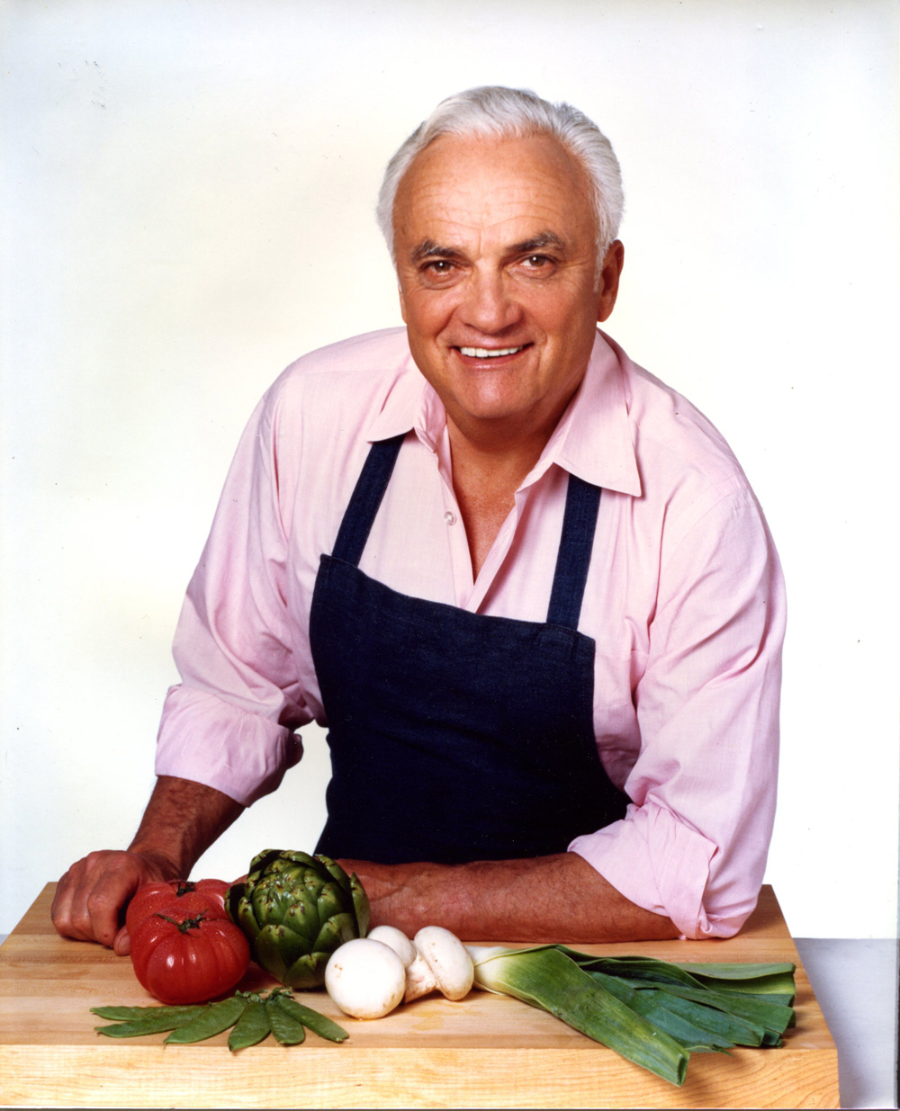 Chef Pierre Franey headshot